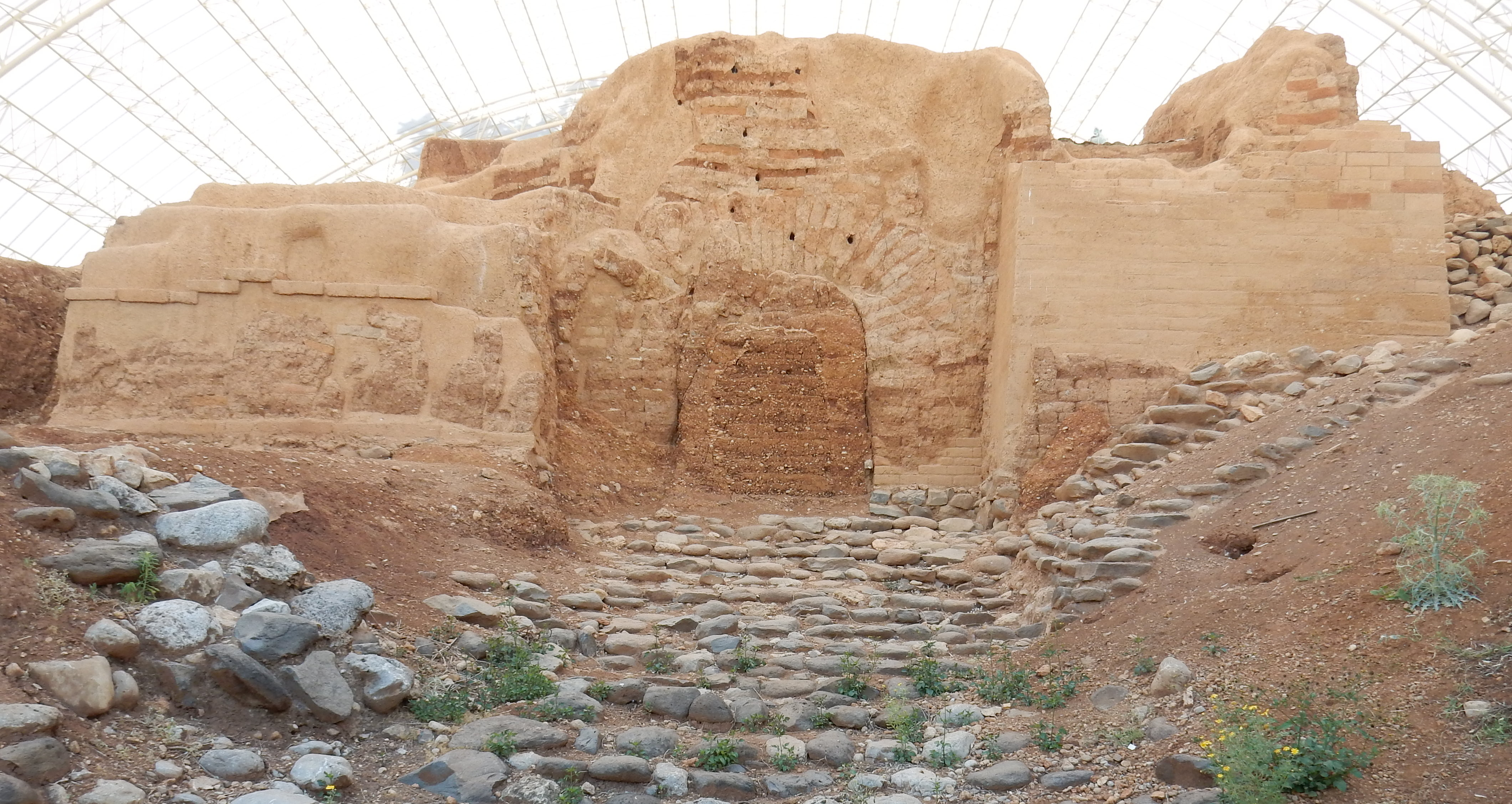 Canaanite Gate in Tel Dan, 2017